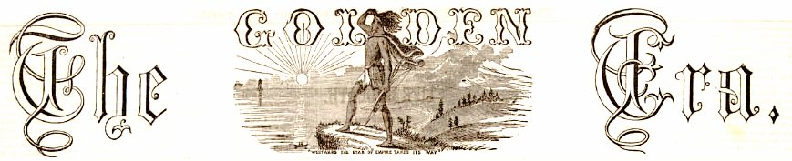 Scan of a weekly periodical, The Golden Era, which began in San Francisco in 1852. This scan is from 1865.